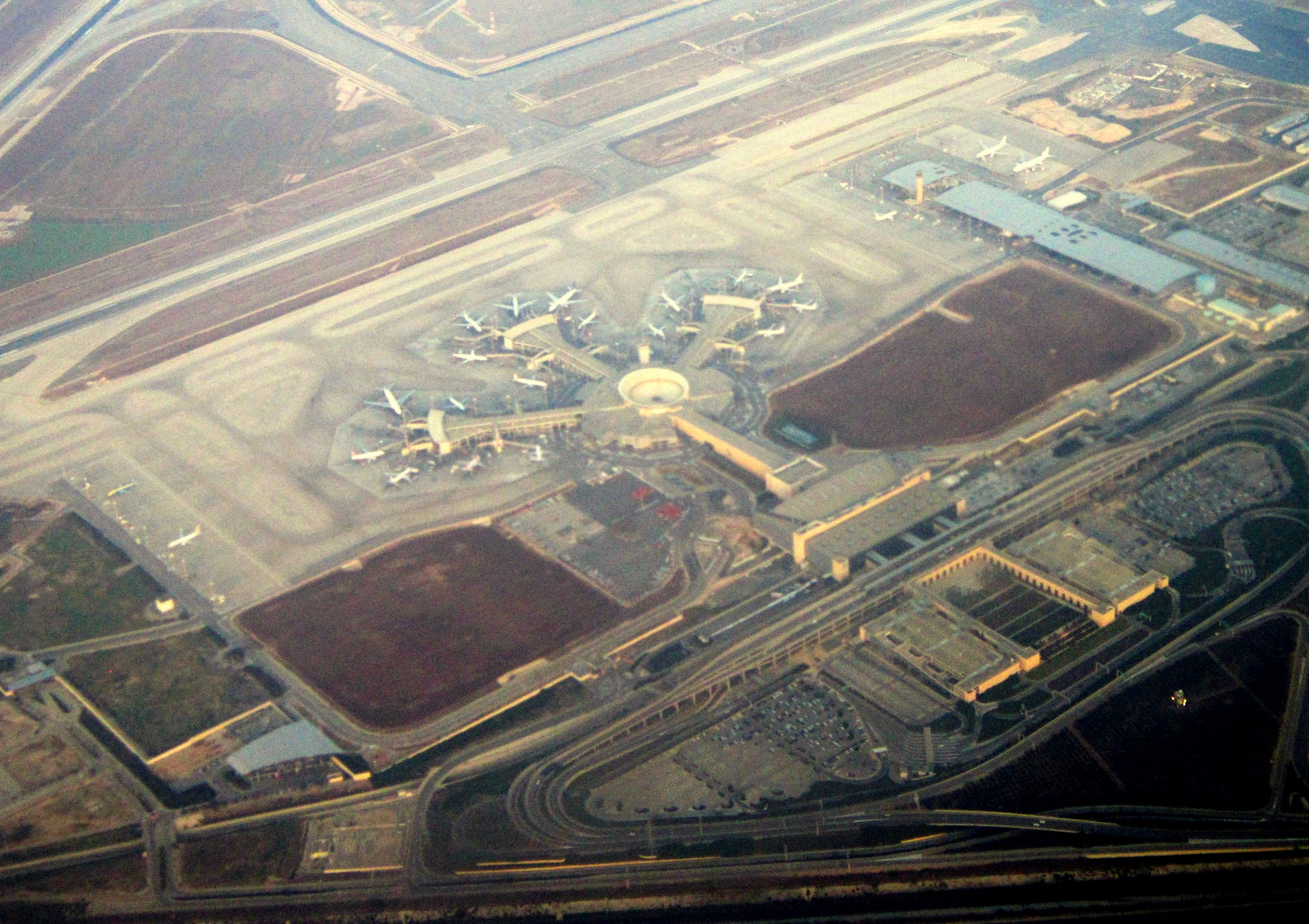 Ben Gurion International Airport runways and terminal